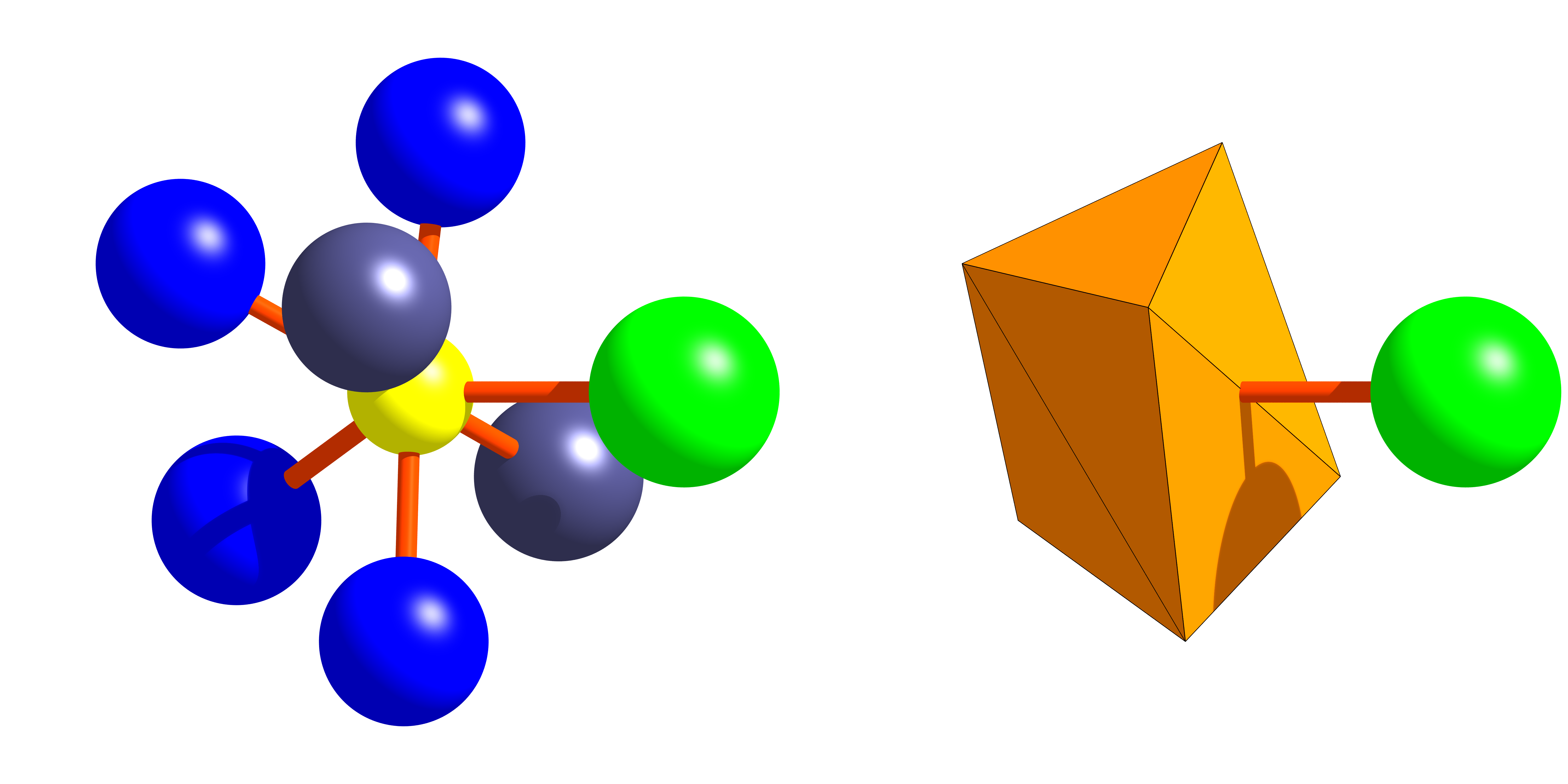 Mayenite structure: Calcium (yellow) in distorted octahedral coordination by 6 oxygens (blau: O1, blau-violett; O2) and one Cl; atoms left and coordination polyhedra right Data from: Tomoyuki Iwata, Masahide Haniuda, Koichiro Fukuda (2008): Crystal structure of Ca12Al14O32Cl2 and luminescence properties of Ca12Al14O32Cl2:Eu2+, Journal of Solid State Chemistry 181, pp. 51-55 Calculation of scene file: Larry W. Finger, Martin Kroeker, and Brian H. Toby, DRAWxtl, an open-source computer program to produce crystal-structure drawings, J. Applied Crystallography V40, pp. 188-192, 2007 Rendering: POVRAY